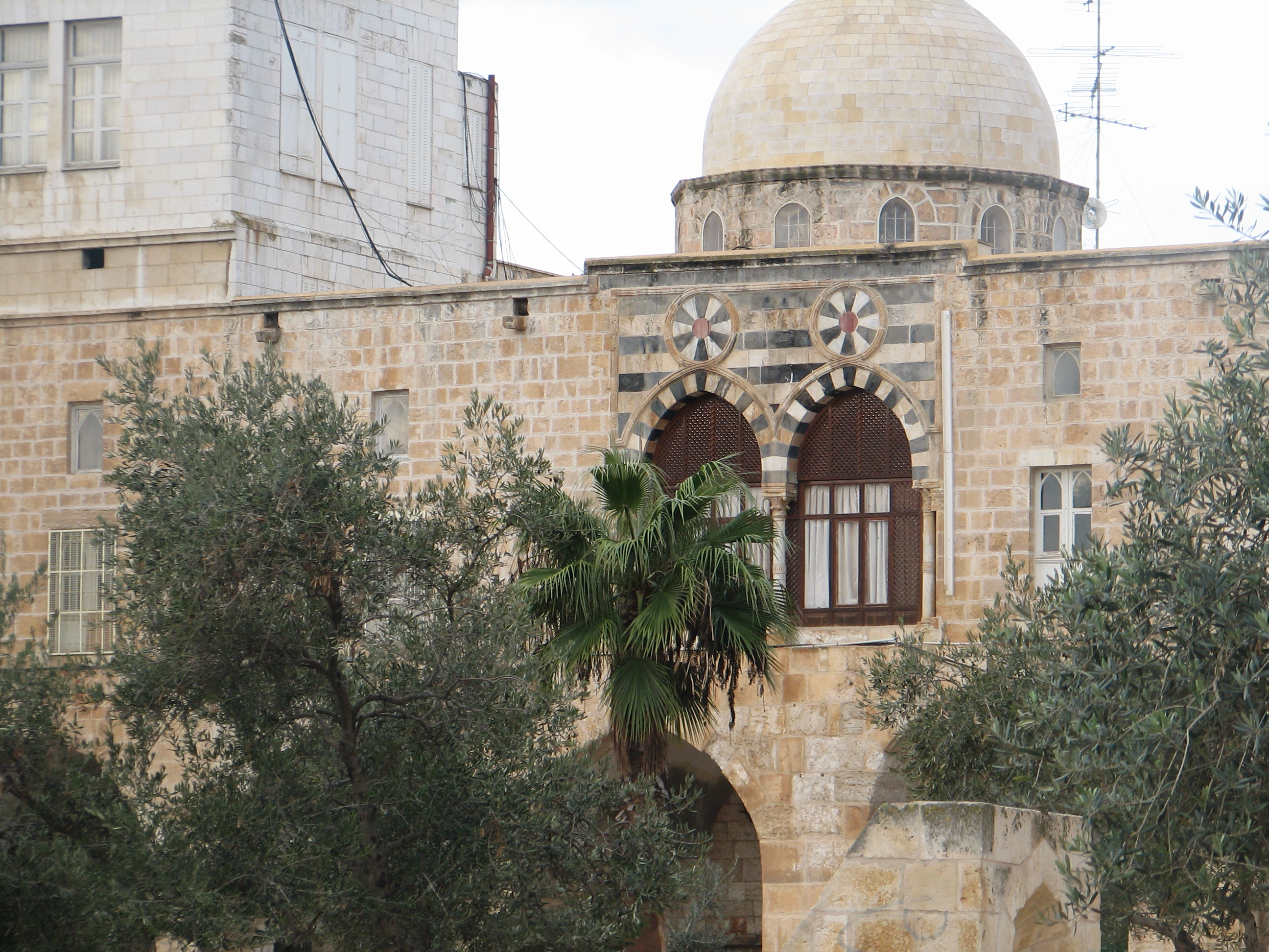 Al-Aqsa Mosque